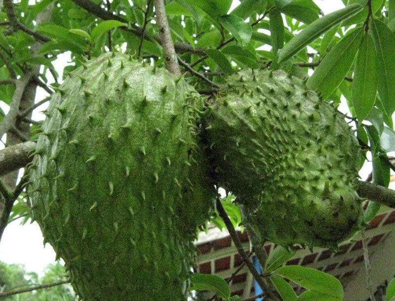 Anona Muricata